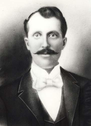 Nazaire Dugas (1864-1942), first Acadian architect.